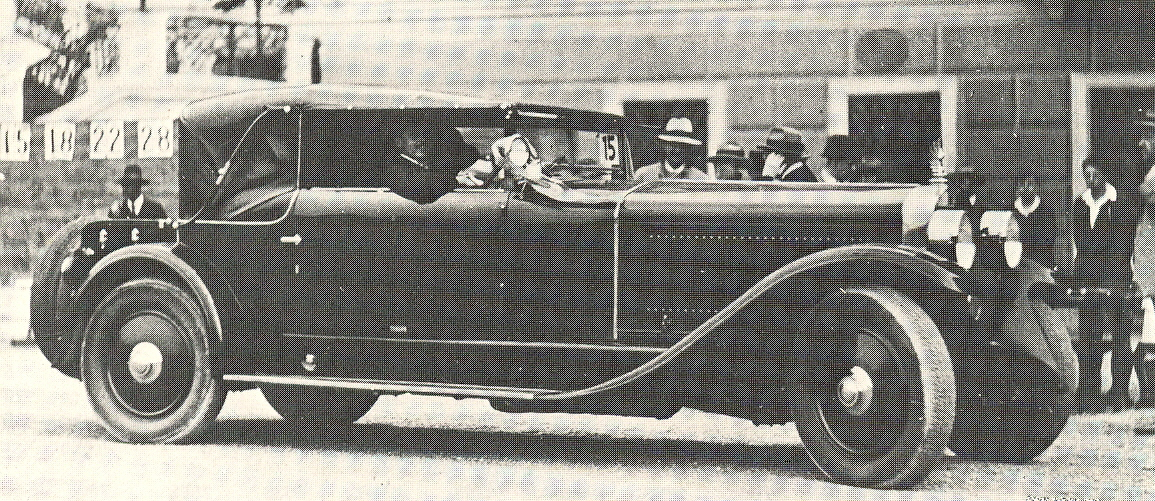 The book Deutsche Autos 1920 - 1945 by Werner Oswald (Motorbuch Verlag Stuttgart, 9th edition 1990) states that this vehicle is a Steyr Austria Sport-Cabriolet (bodied by Keibl) from 1929. This is wrong. There are indications that it is an Isotta Fraschini.